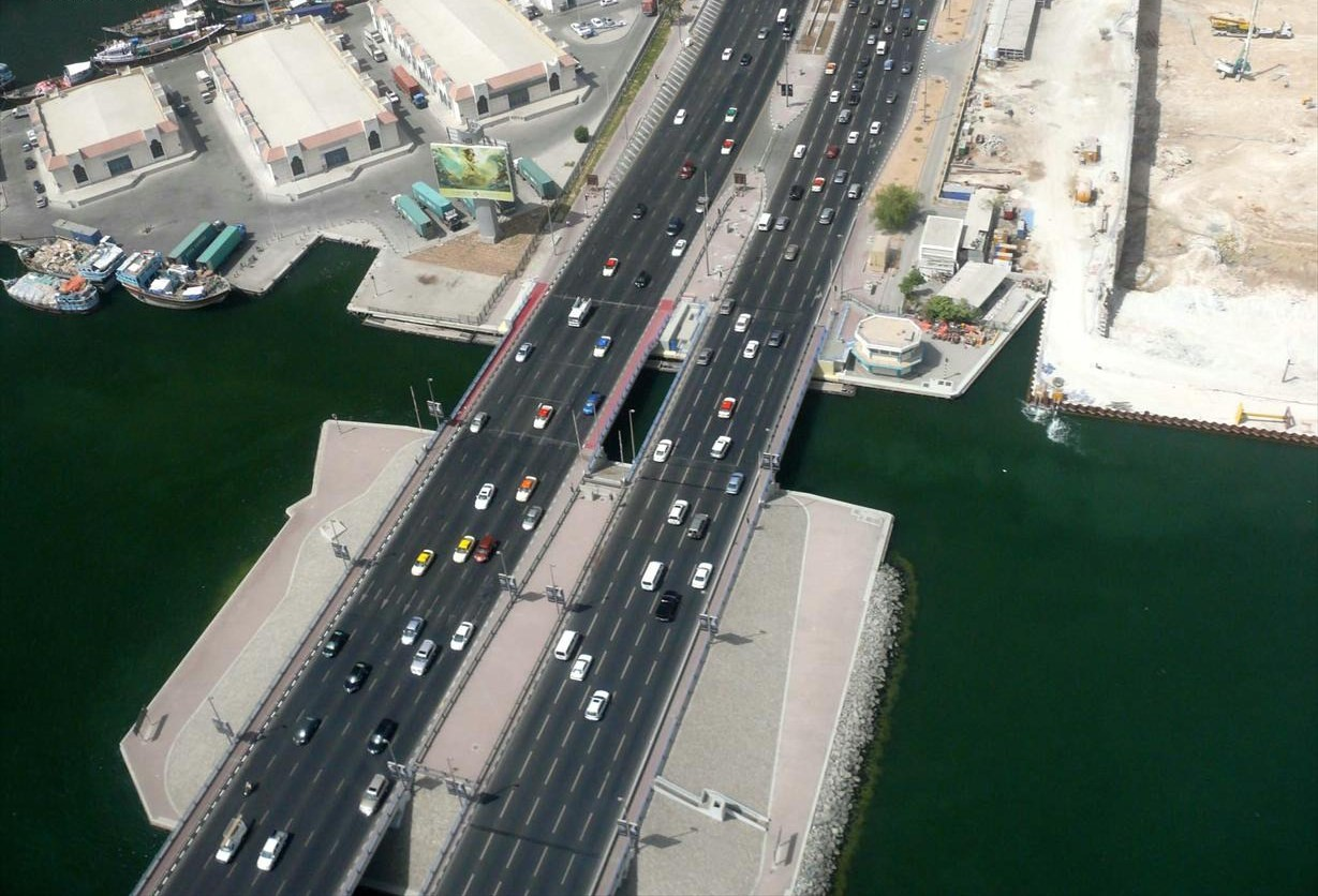 This is an aerial view of Al Maktoum Bridge over Dubai Creek in Dubai, United Arab Emirates on 8 May 2008. Deira is at the top of the image. This image was taken from a helicopter ride courtesy of Nakheel.